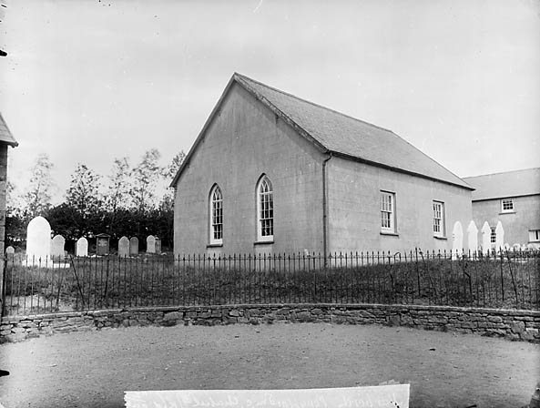 1 negative : glass, dry plate, b&w ; 16.5 x 21.5 cm.